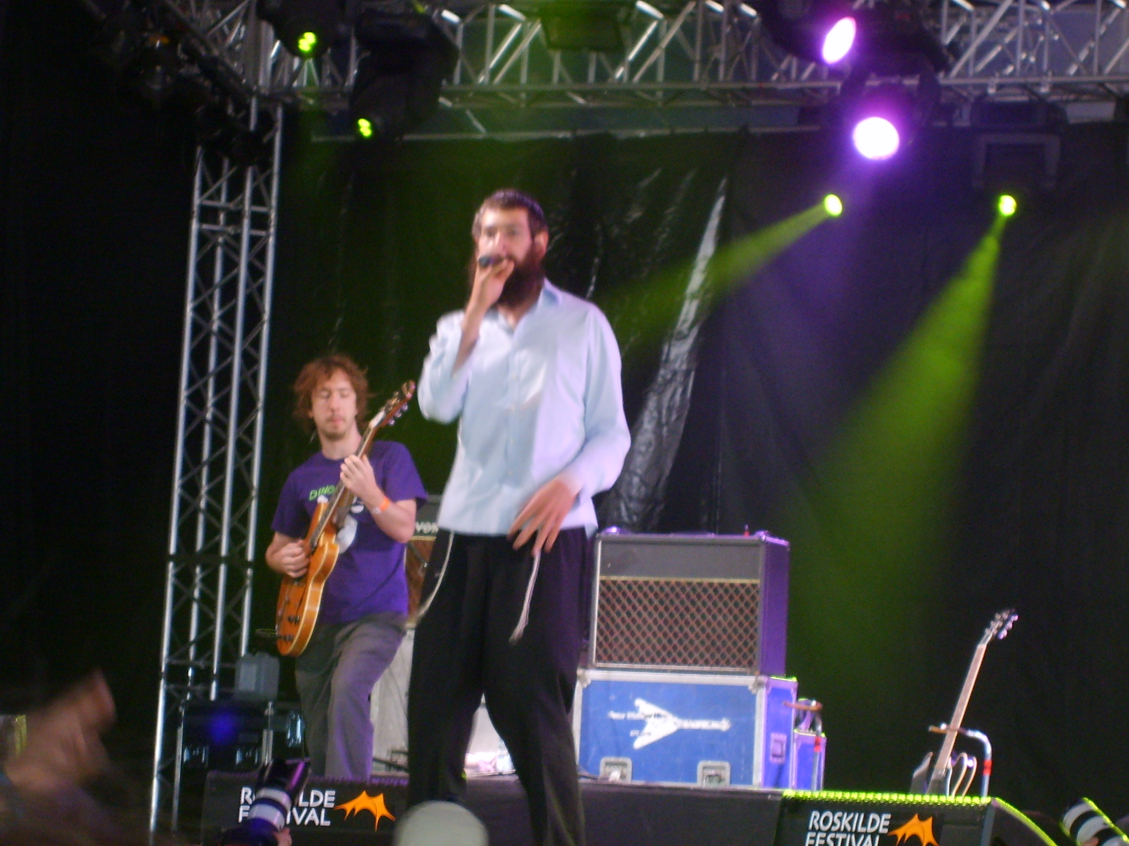 Matisyahu at the Roskilde Festival in 2006.